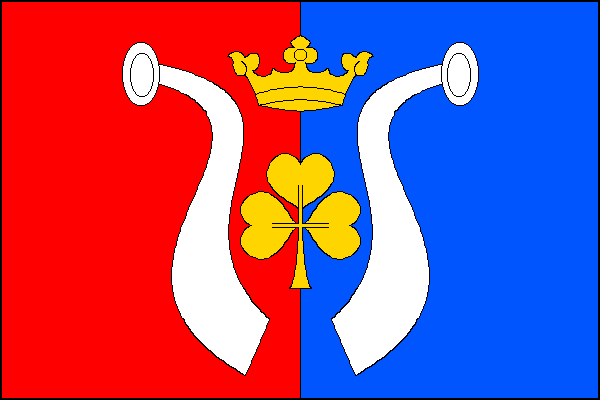 Municipal flag of Trhové Dušníky , District Příbram, Czech Republic